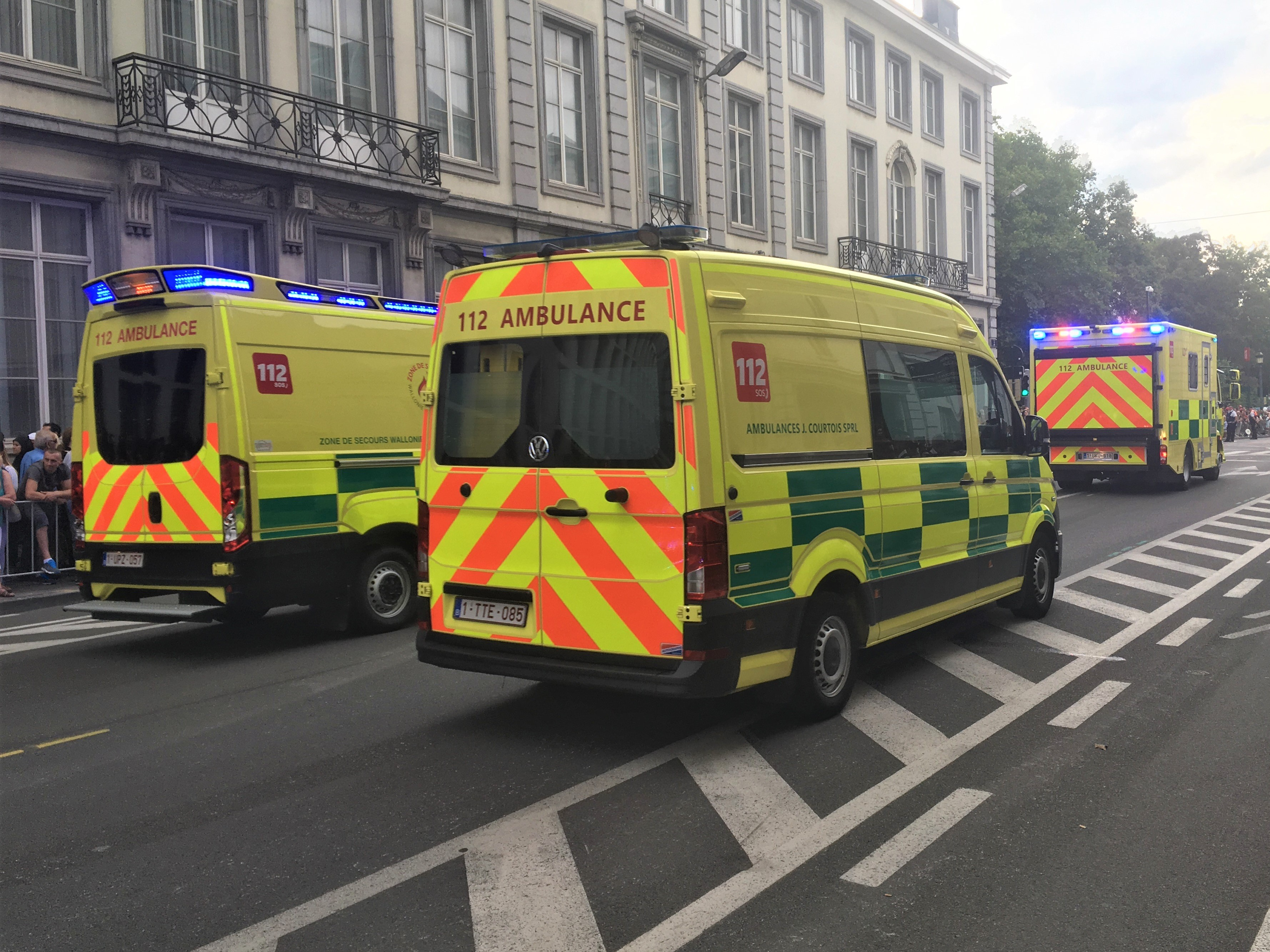 Belgian Emergency Medical Assistance ambulances with Battenburg colors during the National Parade on July 21, 2018 (backside)